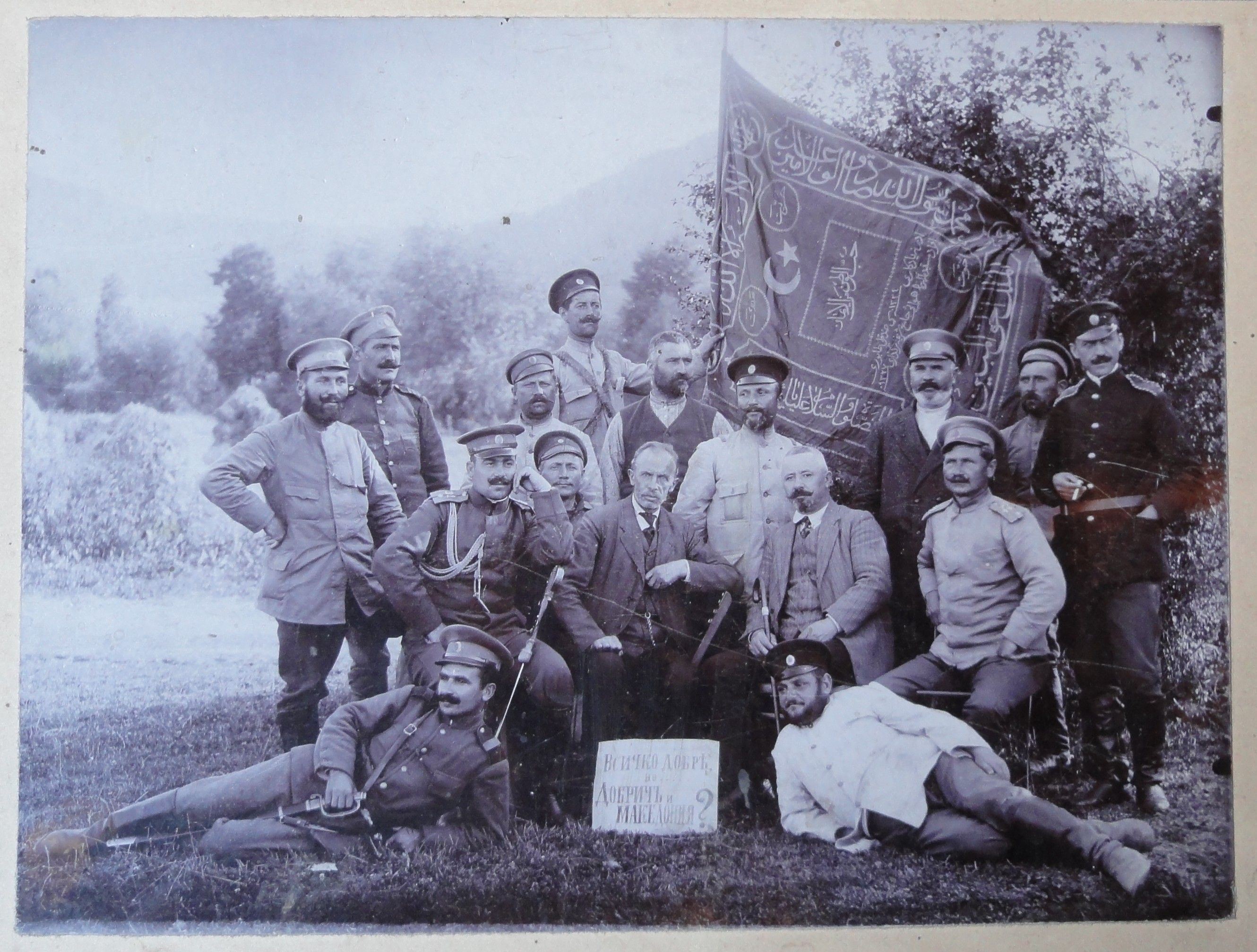 Gyushevo - 25.VI.1913, when peace was concluded. Hristo Zankov(in the middle).